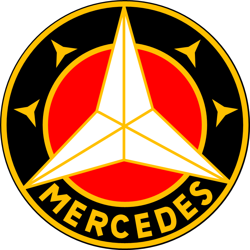 Logo of German company Mercedes-Benz, released in 1916.